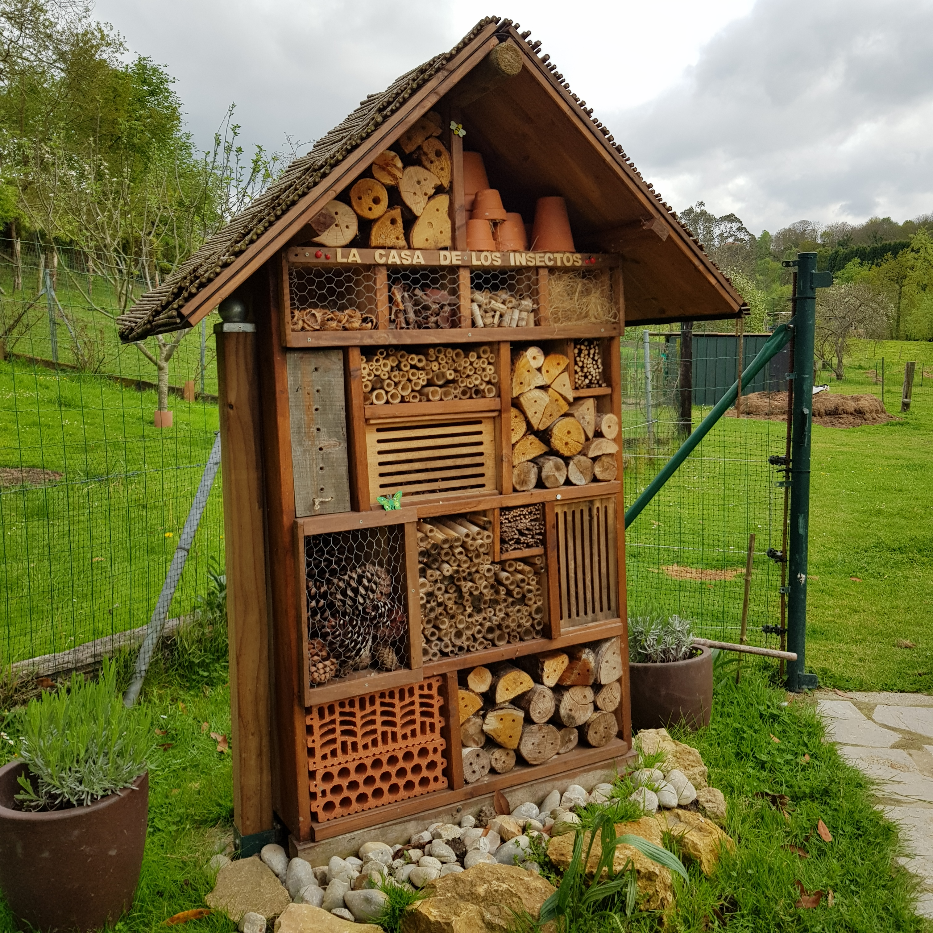 Bee hotel / insects hotel at Siero-Asturias(Spain). Private Farm La CasaRoja